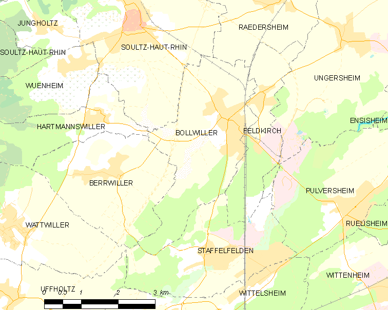 Map of French municipality